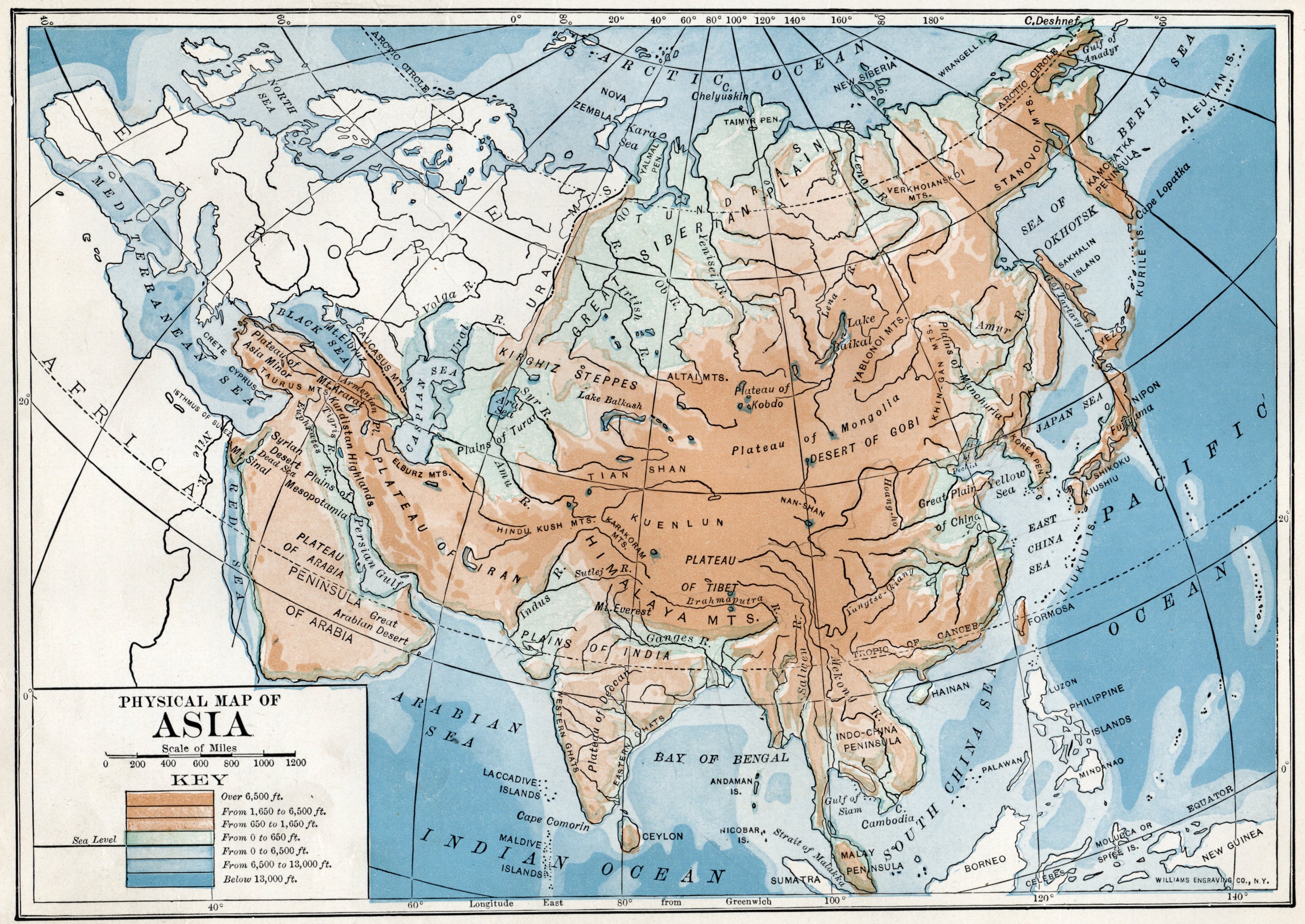 Physical map of Asia from a 1916 geography textbook.